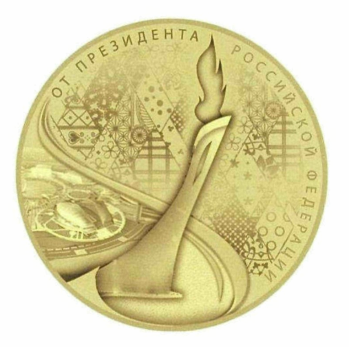 Commemorative medal XXII Olympic Winter Games and XI Paralympic Winter Games 2014 in Sochi (revers)